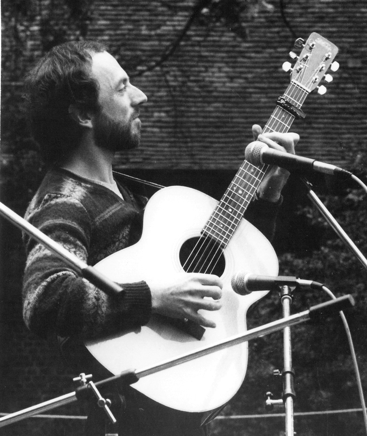 John James (musician) on stage at Greenwich, U.K., 1982 (Tony Rees photograph)